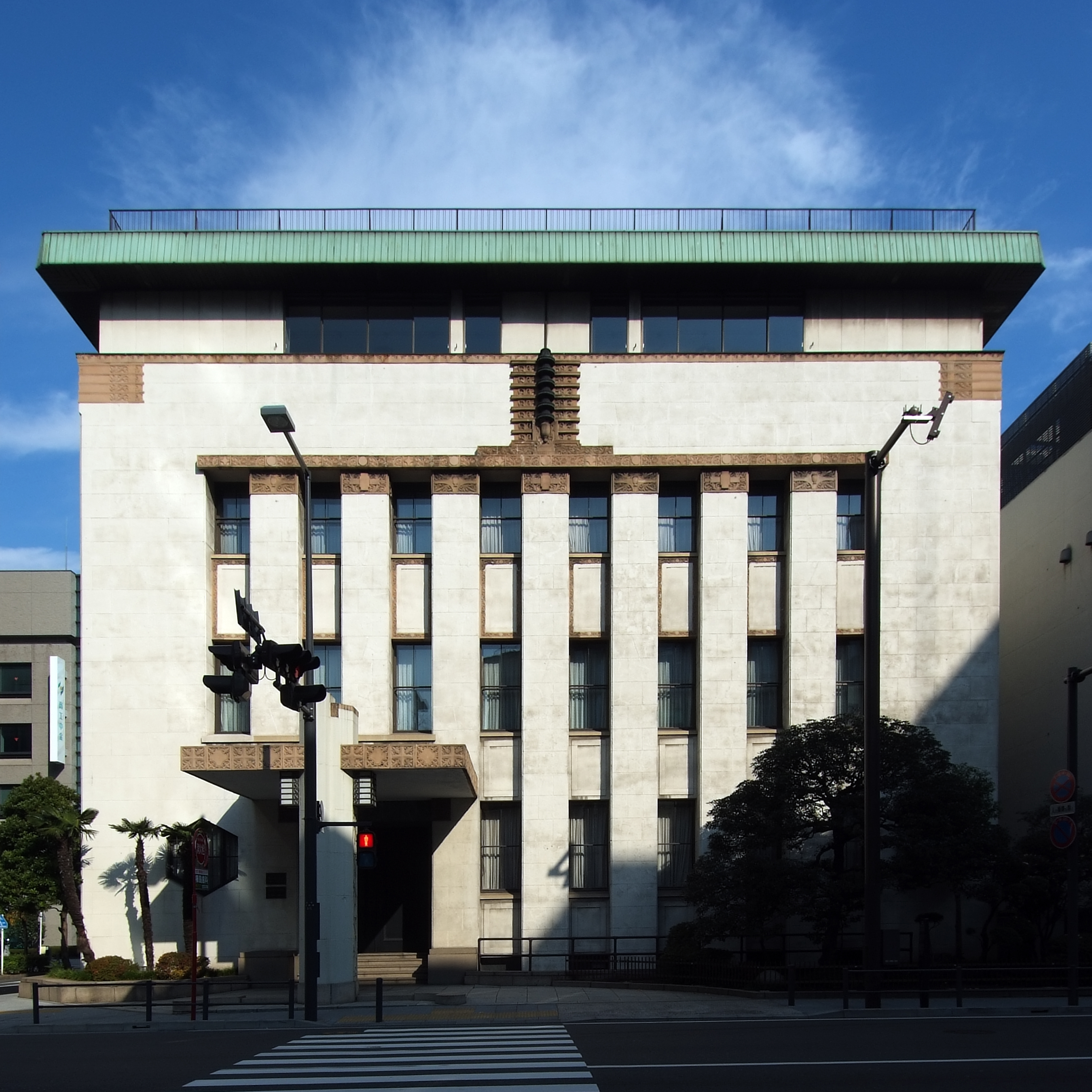 Yokohama Bankers Association (Former Yokohama Bank Meeting Place), Naka-ku Yokohama Japan, design by Yoshikuni Okuma & Gozo Hayashi in 1936.